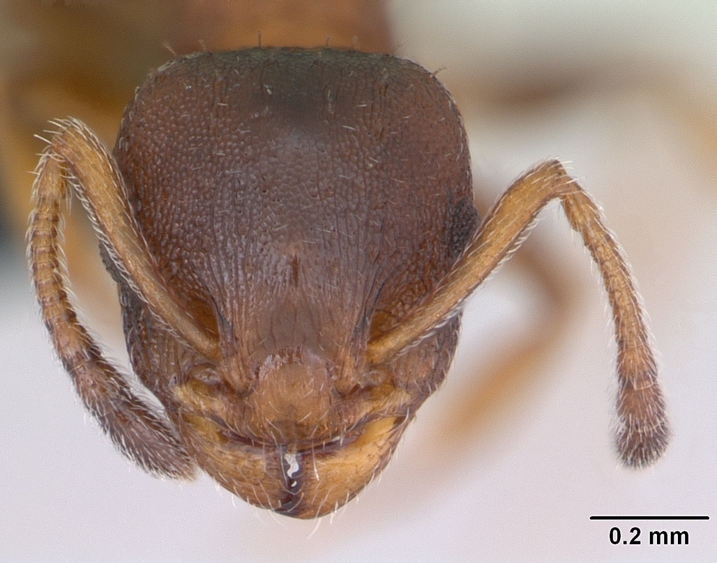 Head view of ant Temnothorax affinis specimen casent0173201.